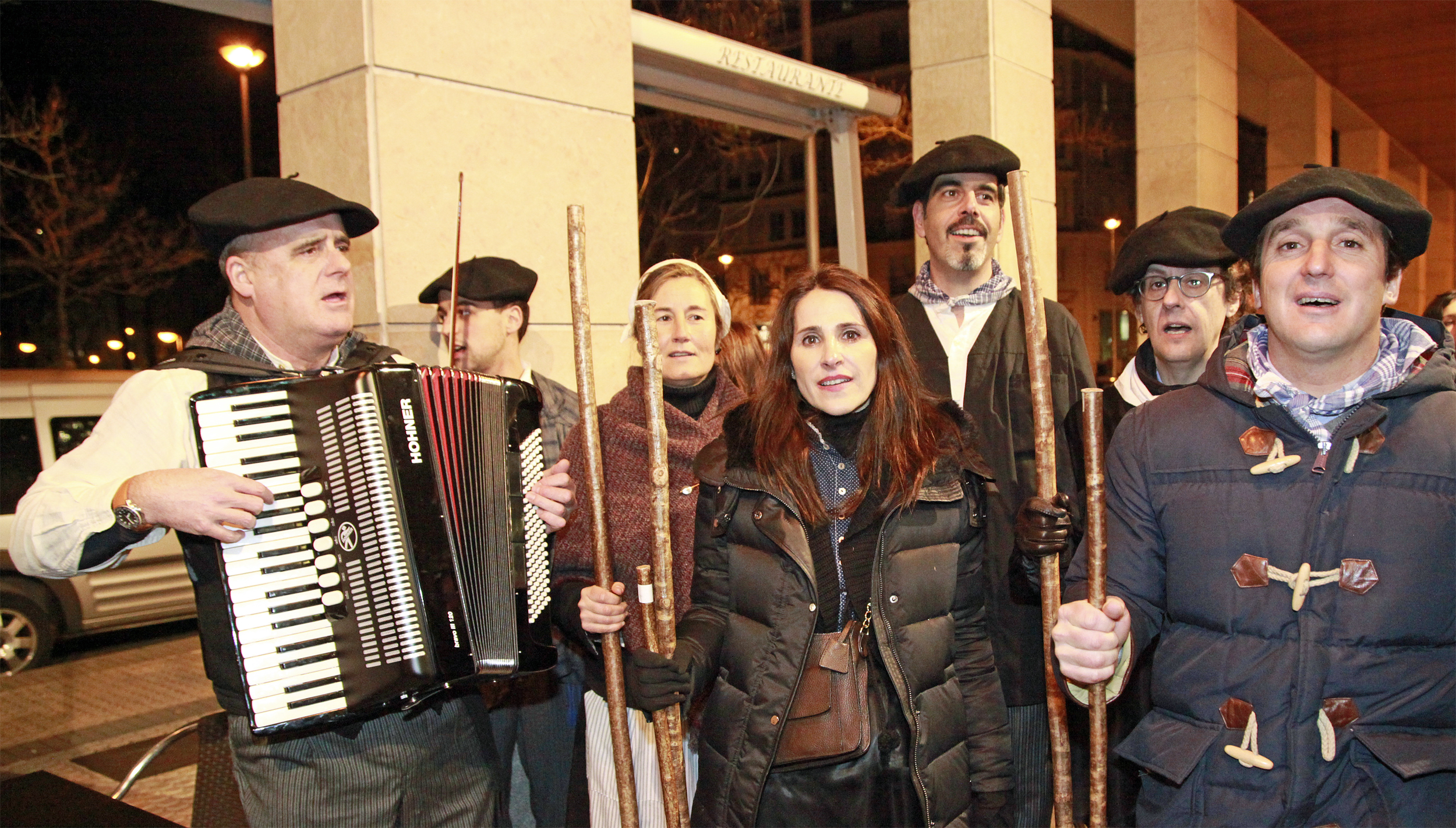 PNV members at celebrating Saint Agatha.